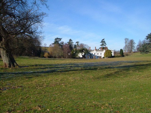 Peamore House in the parish of Exminster, Devon. A house completely remodelled in the neo-Tudor style, set in parkland in a shallow valley not far from Exeter, and seen here from the A379 (looking west by north). 9.47 am